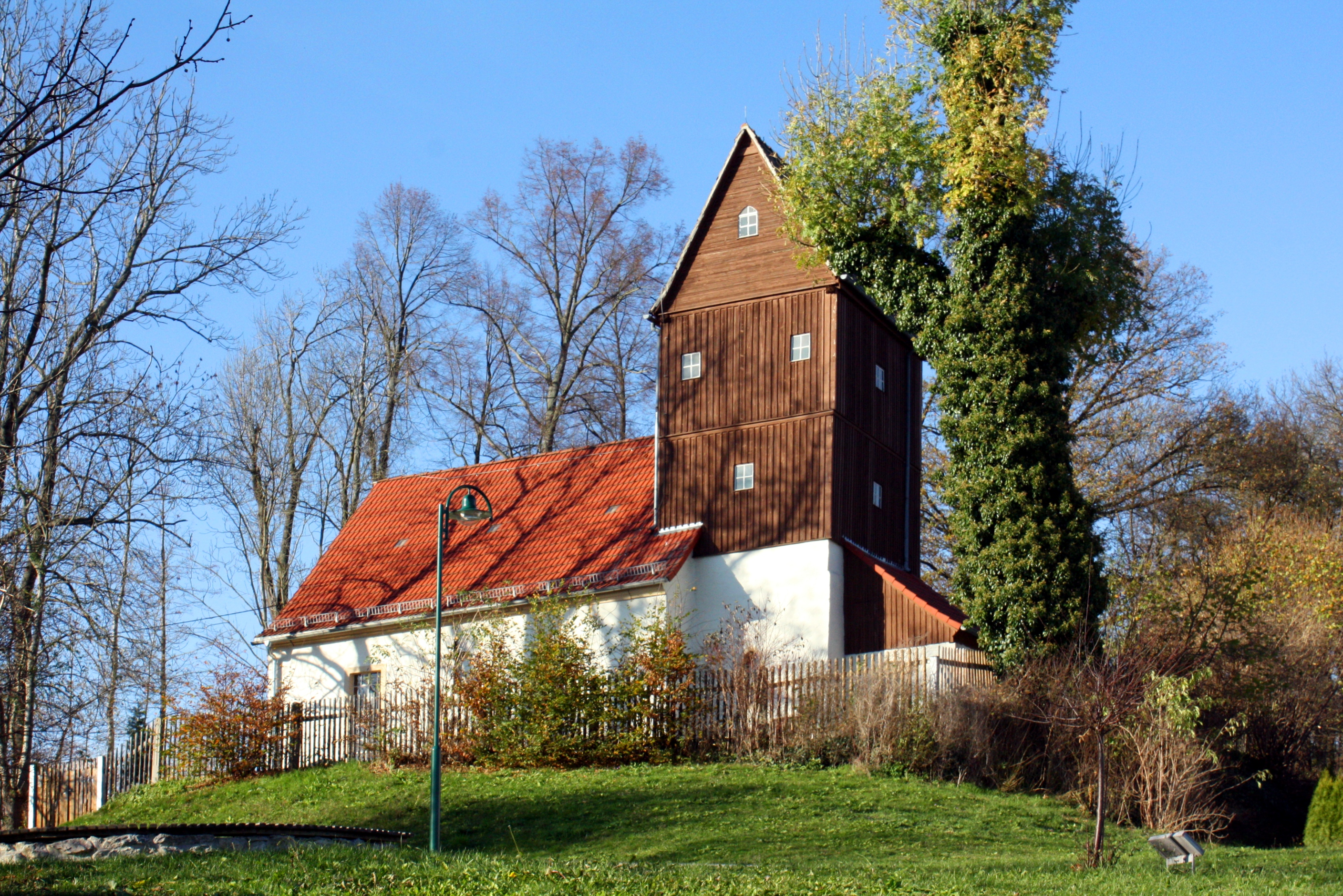 Church in Münchenbernsdorf-Kleinbernsdorf near Gera/Thuringia